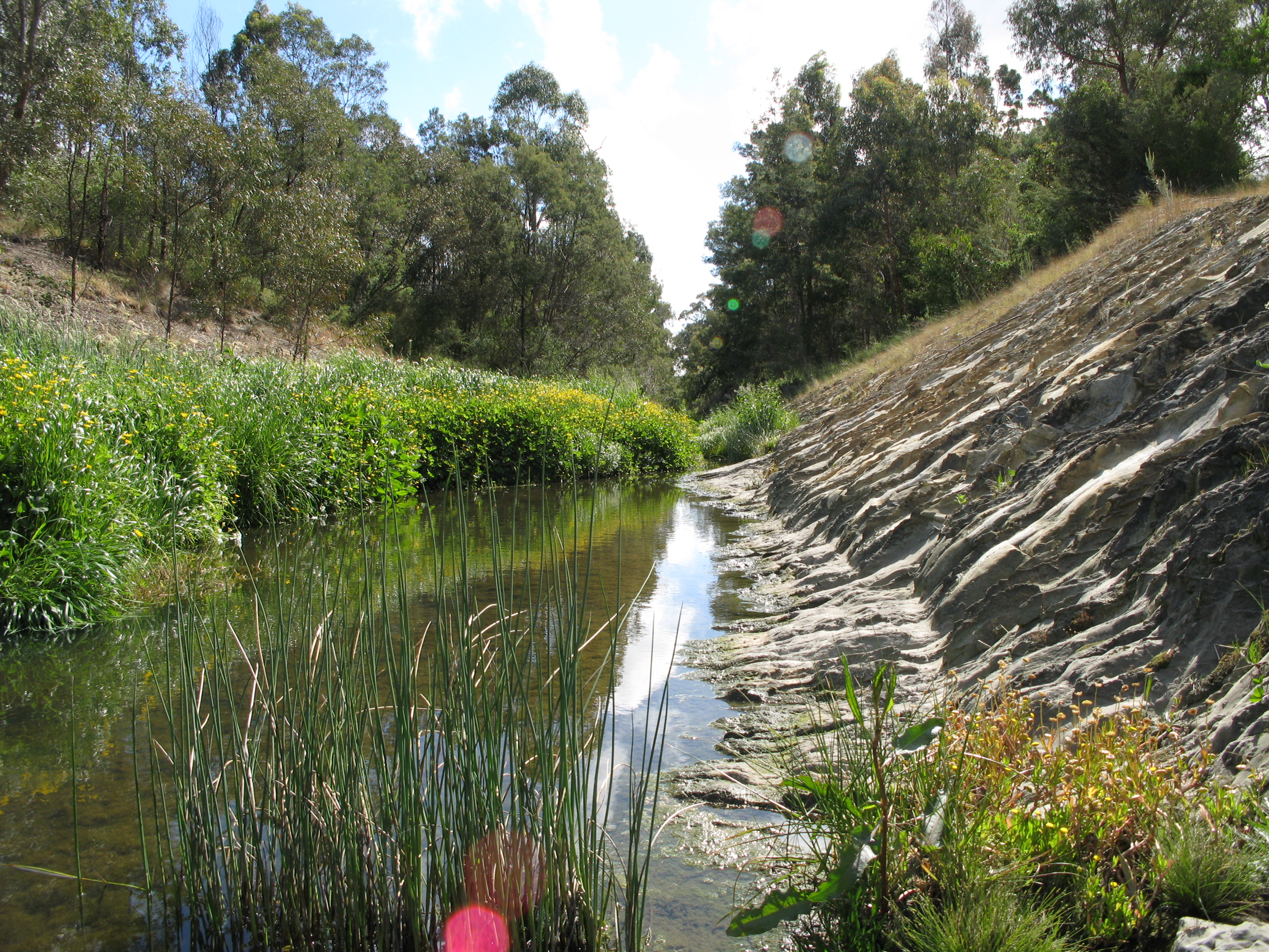 Koonung Creek, in Melbourne, Australia. Photo taken just west (downstream) of where the creek passes under Blackburn Road. Photo taken by me in October 2008.